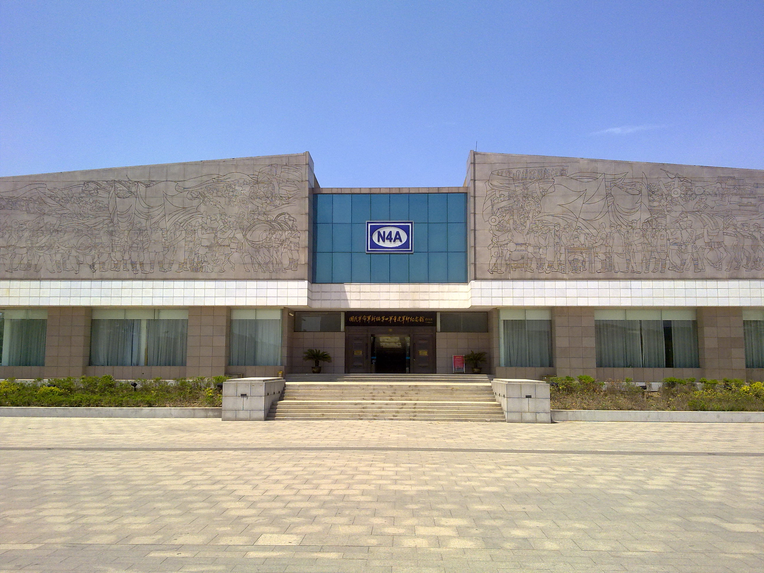 The main exhibition hall of New Fourth Army（N4A）Memorial Hall,Yancheng City,Jiangsu Provence,P.R.C